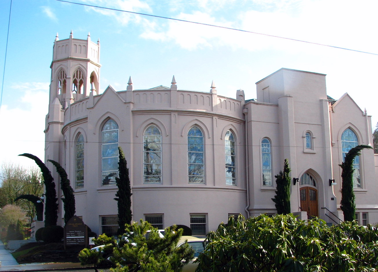 The historic First Congregational Church of Oregon City (built 1925), located at 710 6th Street in Oregon City, Oregon, United States, is listed on the US National Register of Historic Places.